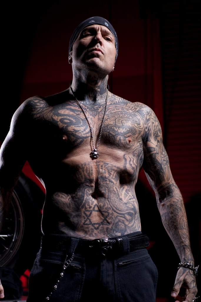 Evan Seinfeld